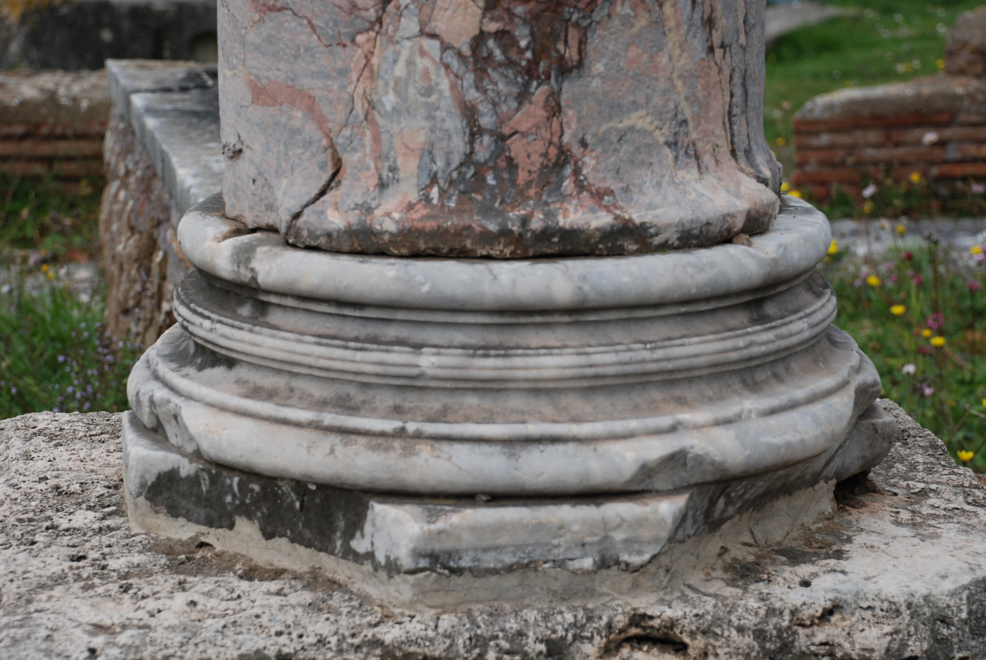 Ostia antica (archaeological site)